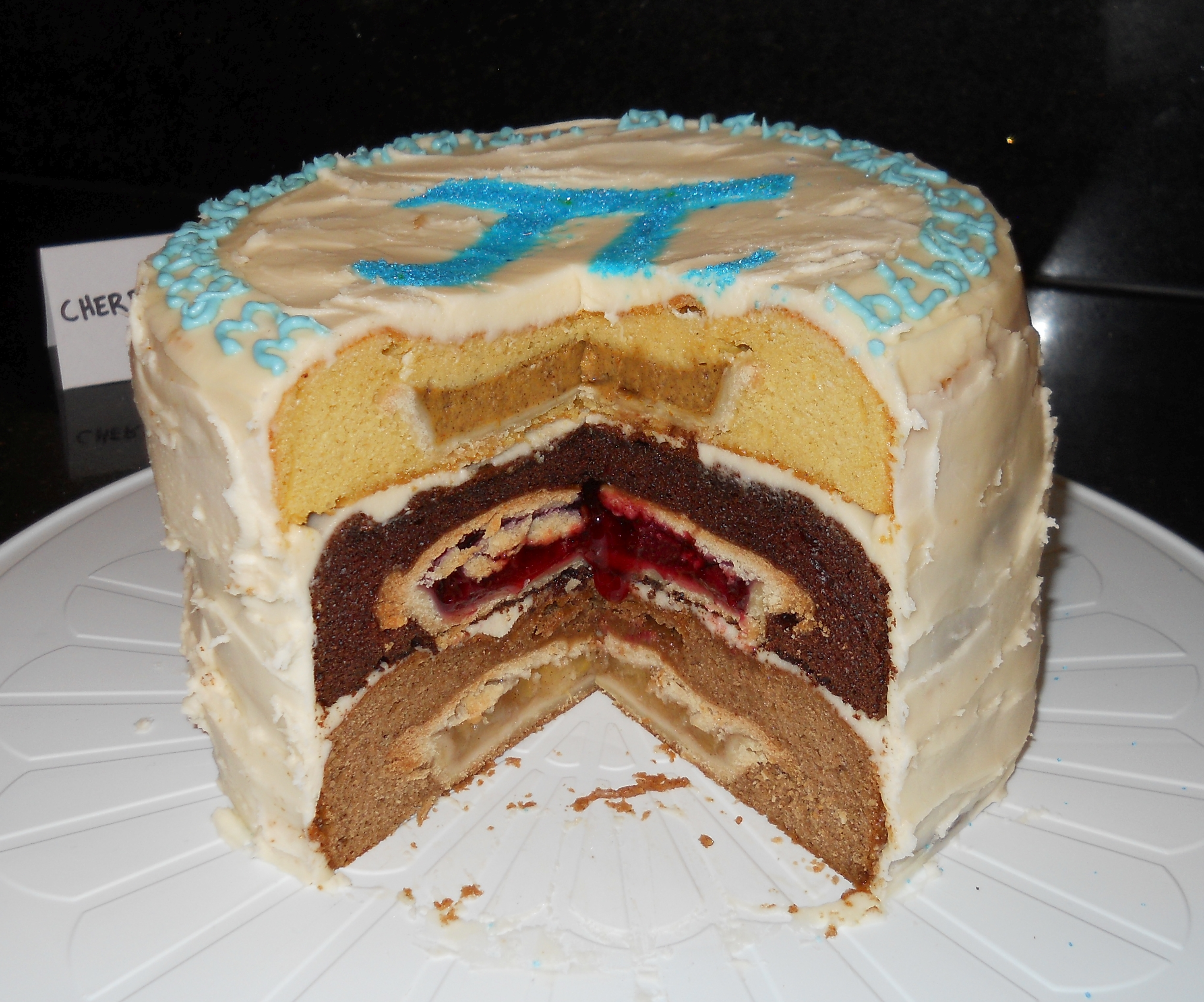 Cherpumple: yellow cake with pumpkin pie, chocolate cake with cherry pie, and spice cake with apple pie